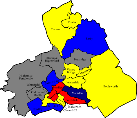 A map of the results of the 2006 Pendle Council election. Colour legend by wards won: Liberal Democrats Labour party Conservative party British National Party Wards in grey were not contested in 2006.